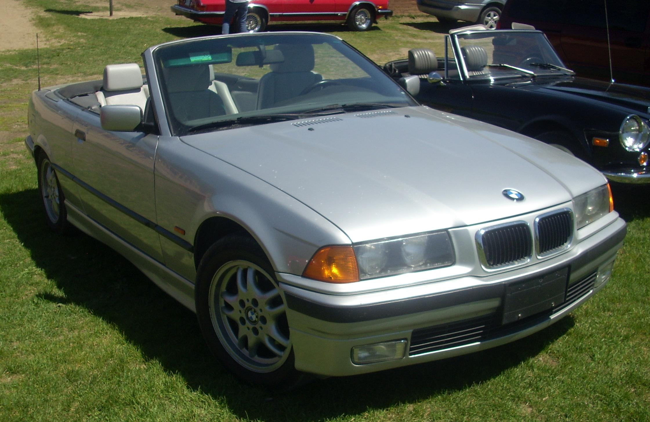 1997-1999 BMW 323i photographed at the 2008 Hudson British Car Show.